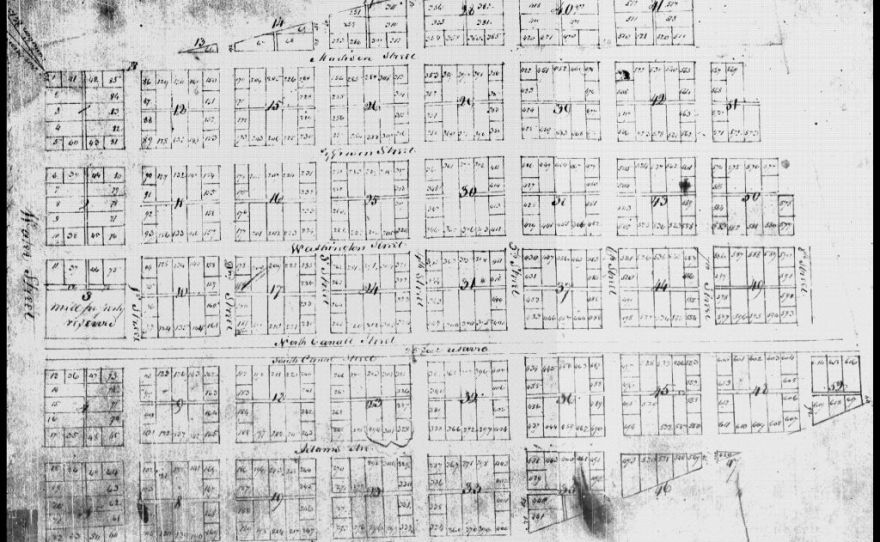 Plat map (cadastral survey) made for Thomas Osburn and four other white landowners who initially owned the land on which Brooklyn was built.